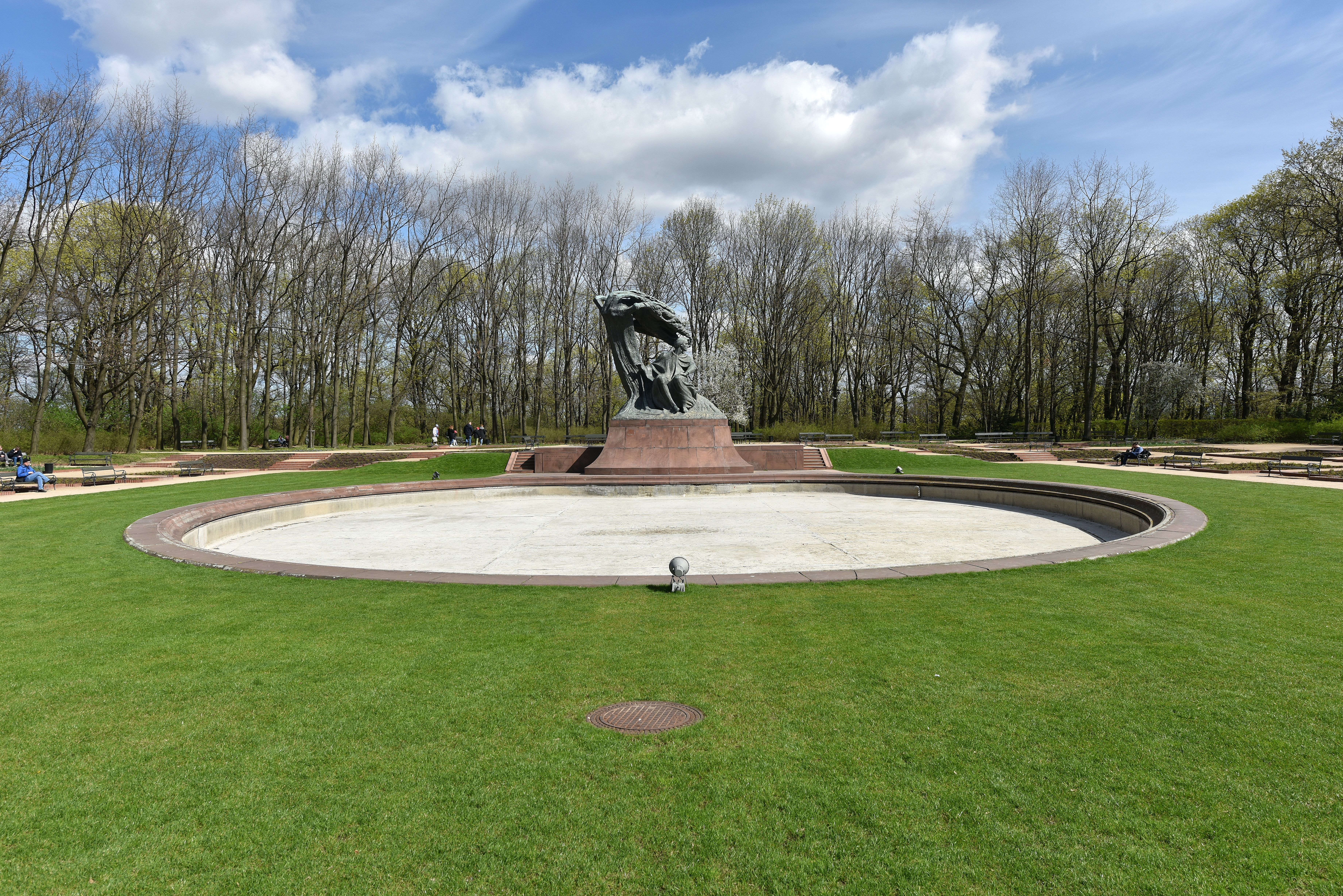 Monument to Frederick Chopin in Warsaw